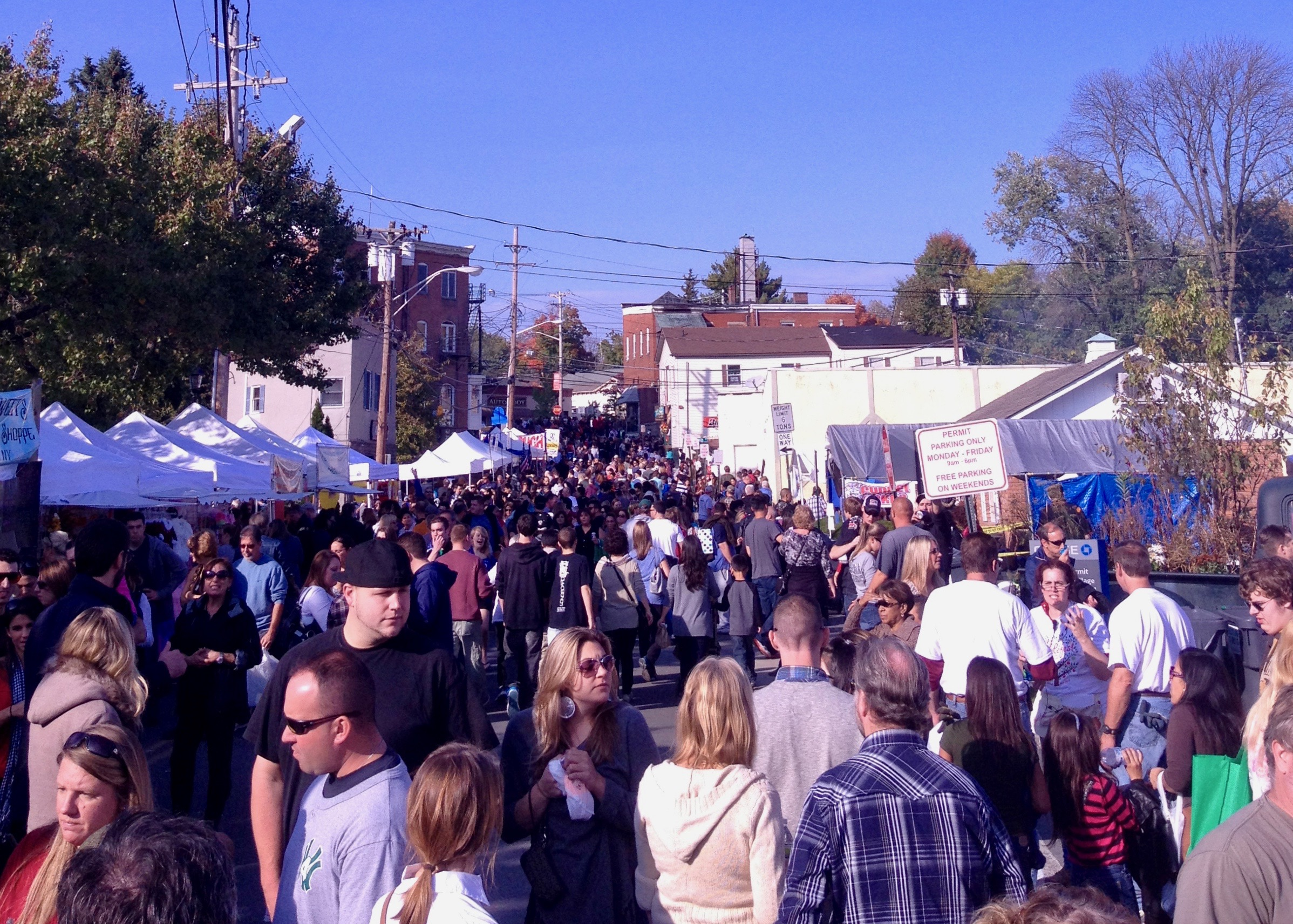 Warwick Applefest. View looking Northward on South Street, Warwick, NY, Sunday, October 14th 2012.